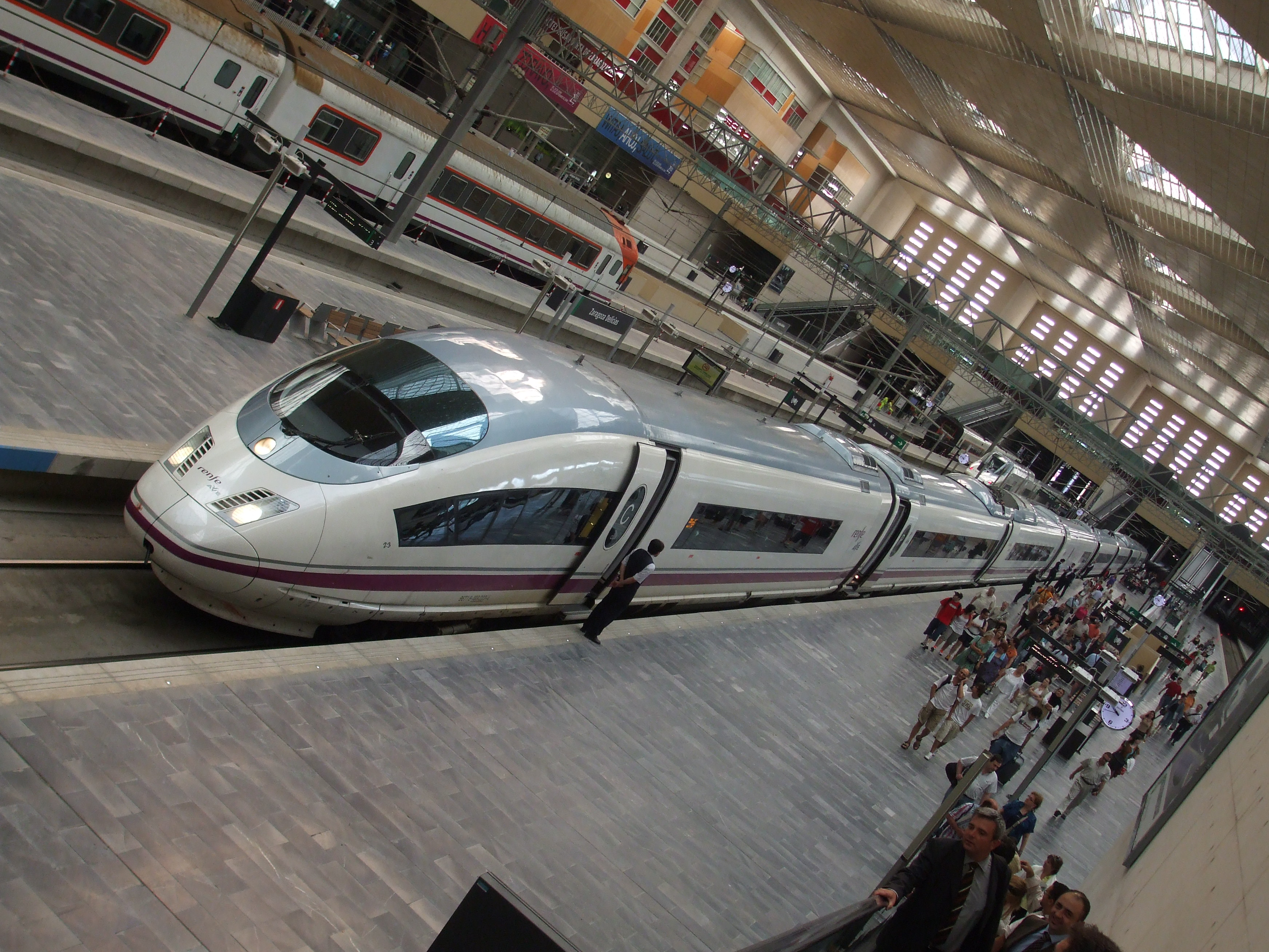 Renfe AVE from Barcelona to Madrid at Zaragoza Delicias station. Photo made during World Expo 2008. There are banners with welcome messages in multiple languages.